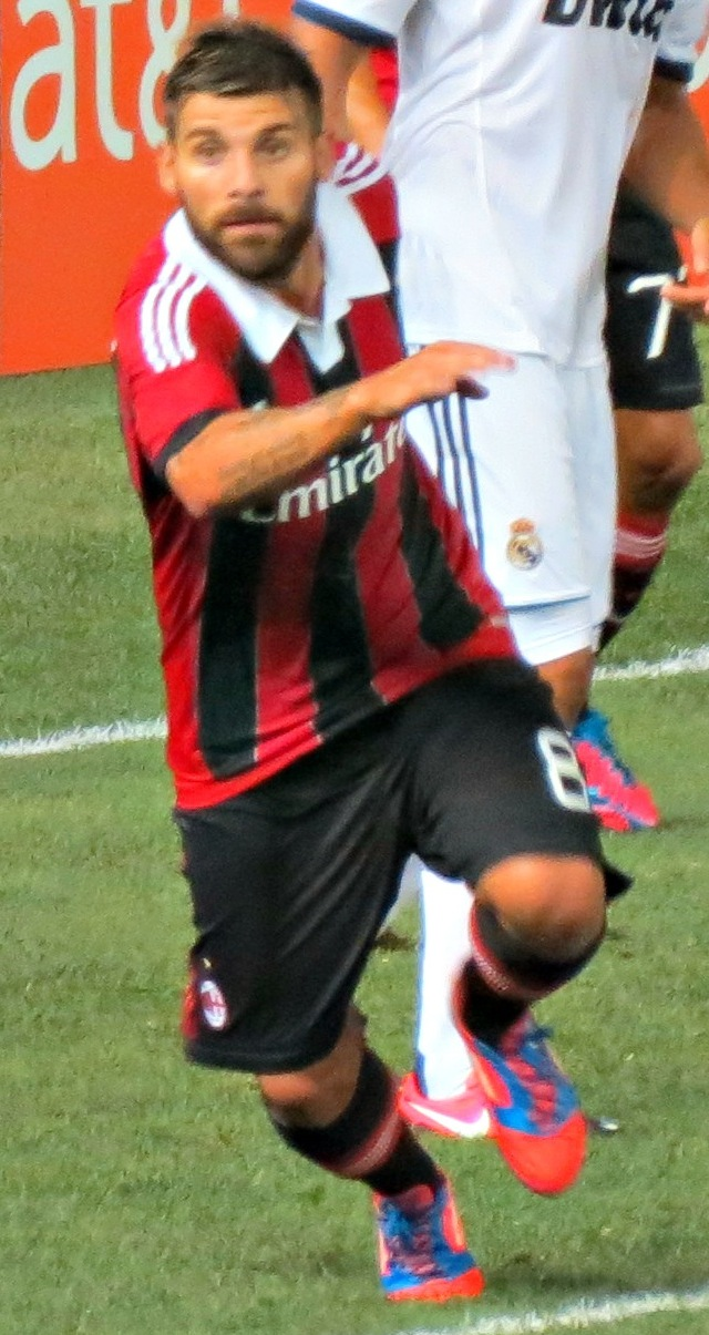 Taken by goatling with a Canon PowerShot SX40 HS camera. Antonio Nocerino of A.C. Milan.